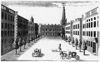 St Ann's Square Manchester in 1745. The cupola of the church was removed in 1777